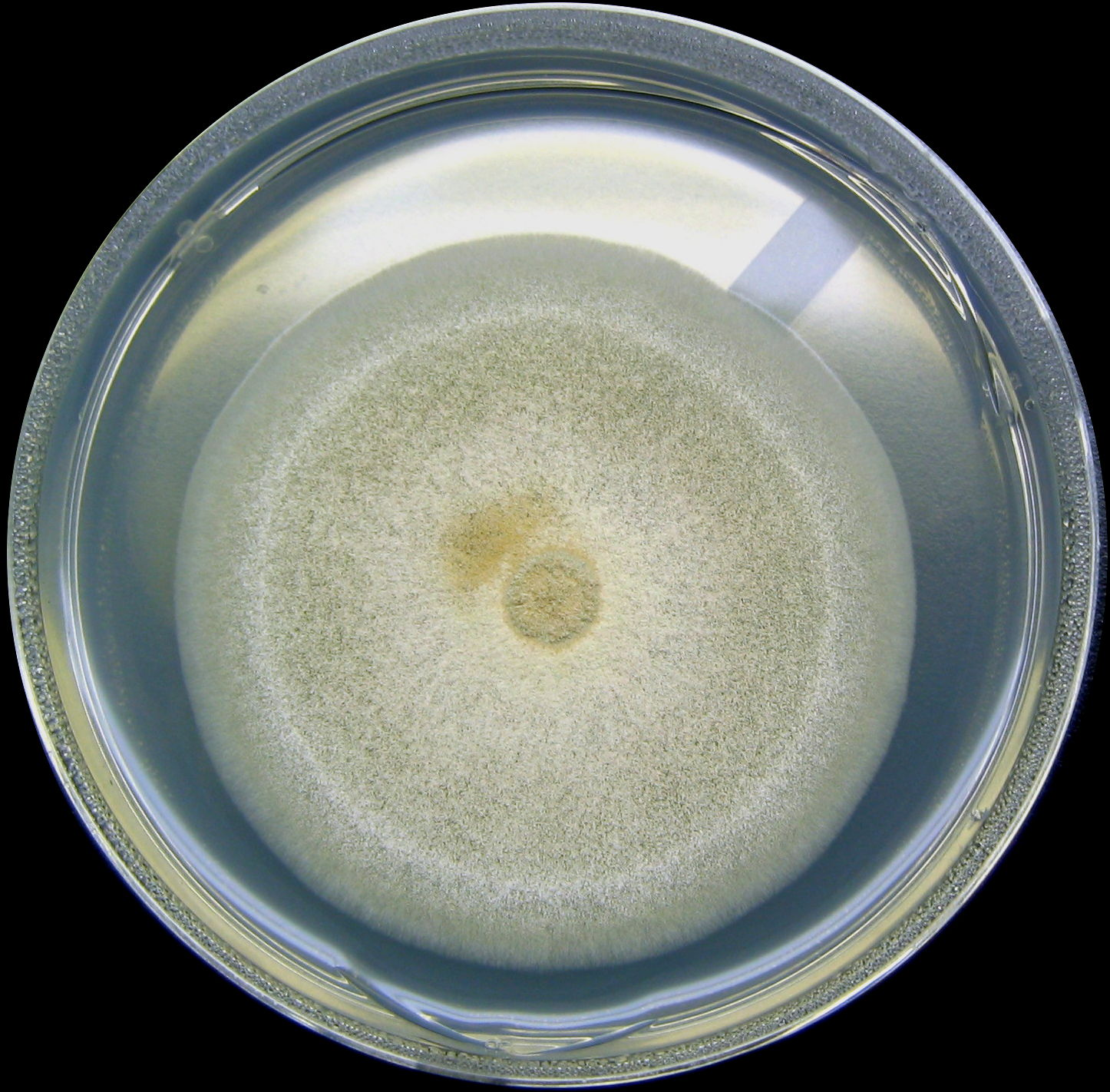 Aspergillus nidulans inoculated on a complete fungal medium. Evolved from strain WG615.